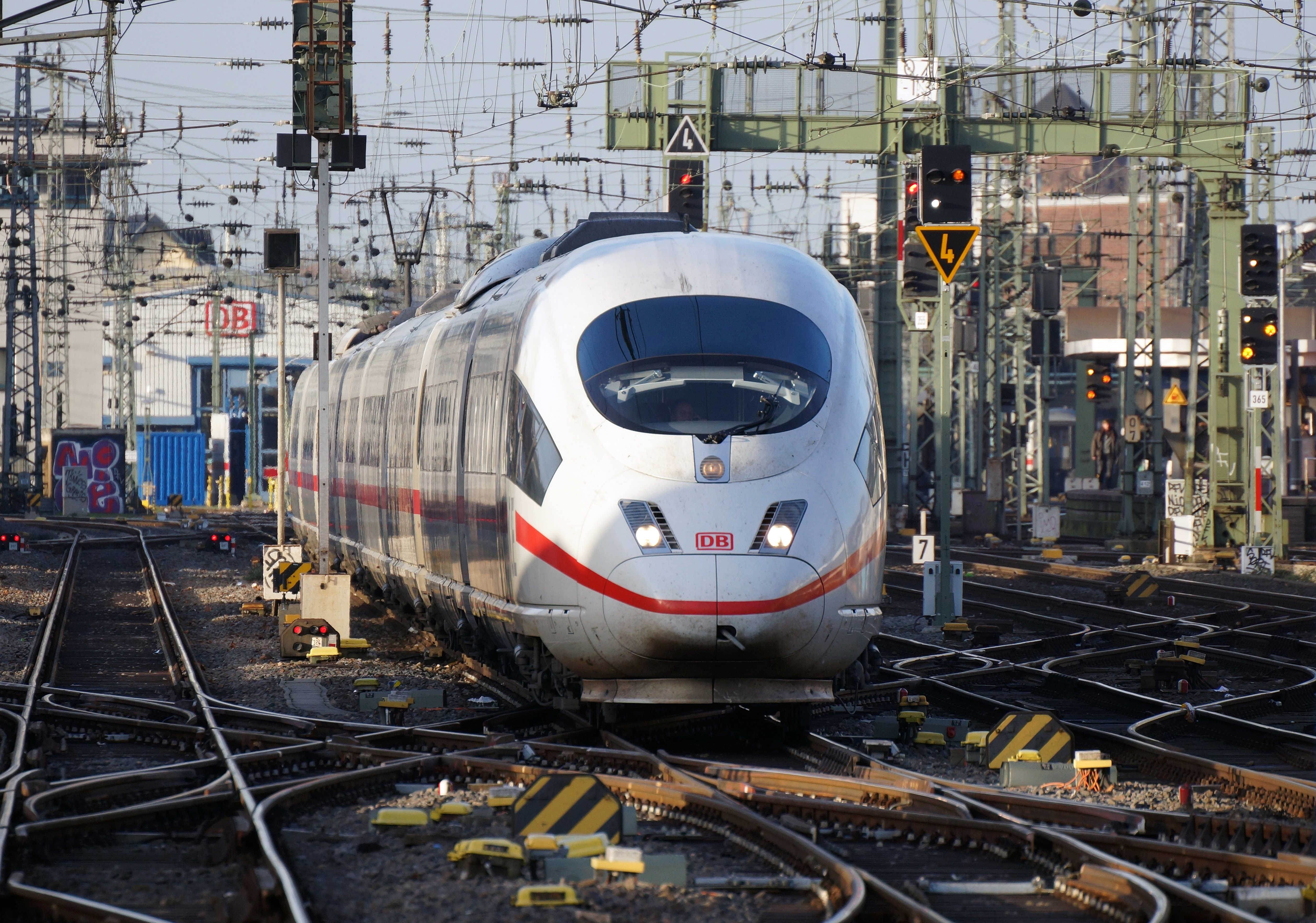 DBAG ICE 3 in the near of Cologne main station.